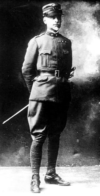 Photograph of Eugenio De Rossi